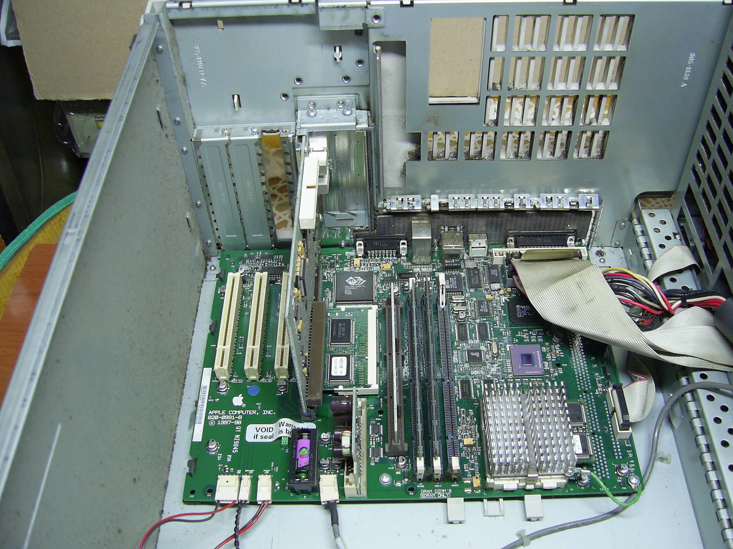 Power Macintosh G3 minitower (Beige) motherboard view